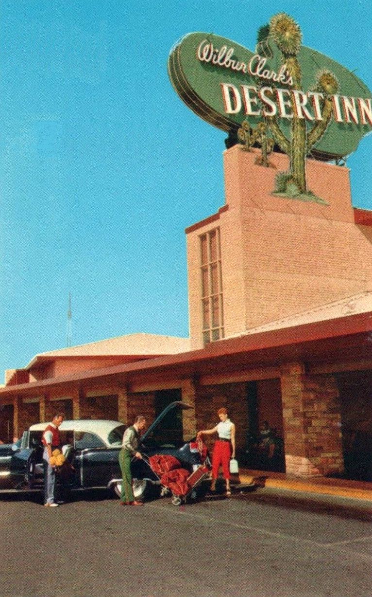 Photo of the front of the Desert Inn from the pool from a 1955 postcard.